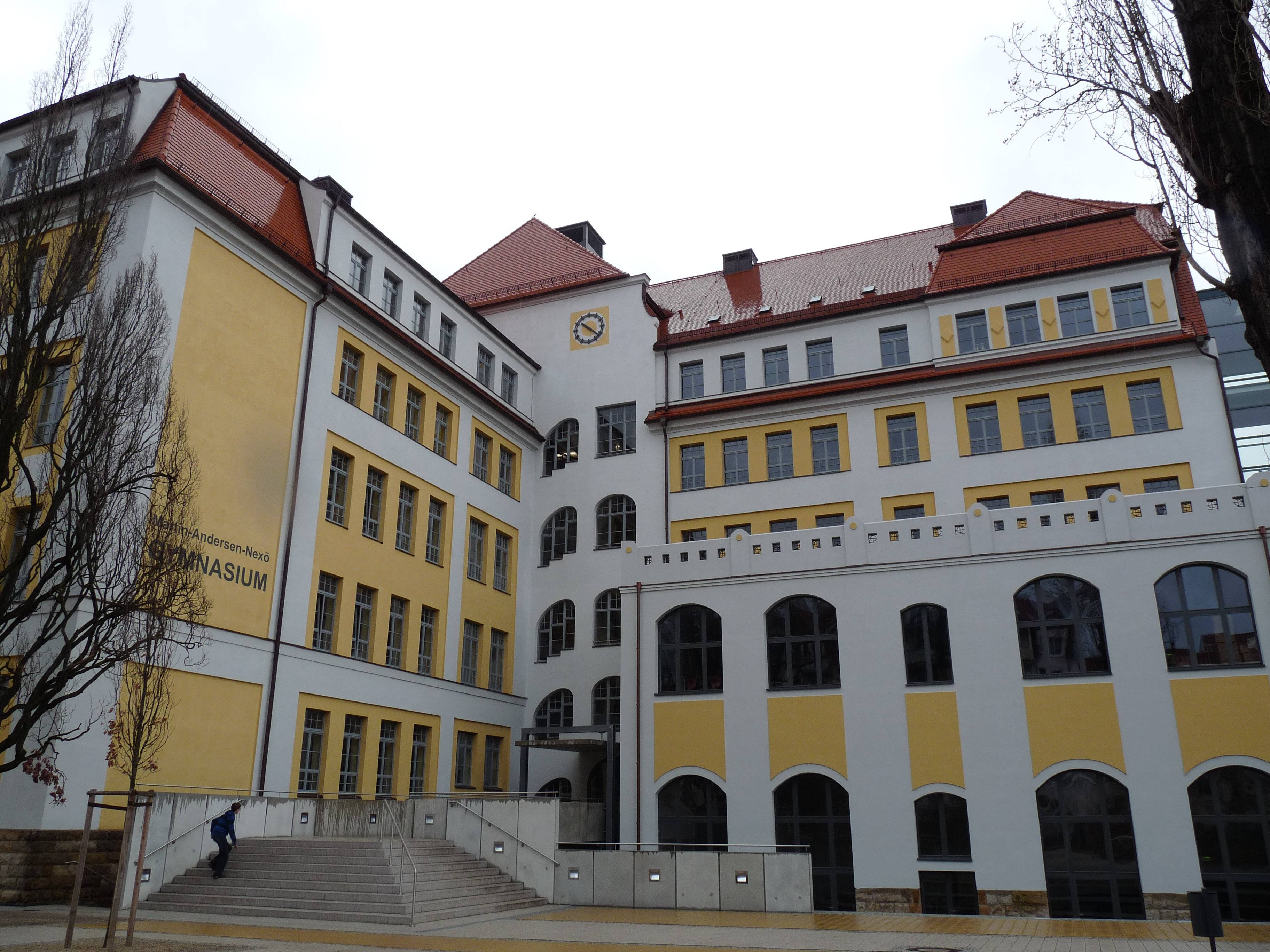 Building of the Martin-Andersen-Nexö-Gymnasium (a highschool) in Dresden